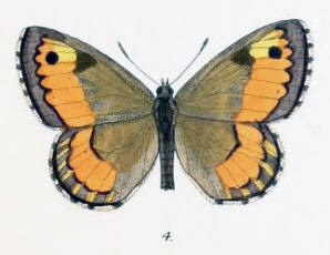 Karanasa leechii